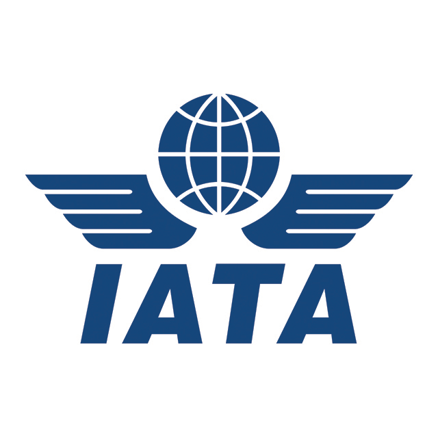 Official IATA logo